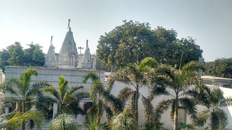 Side view of Dadabari, Mehrauli, New Delhi